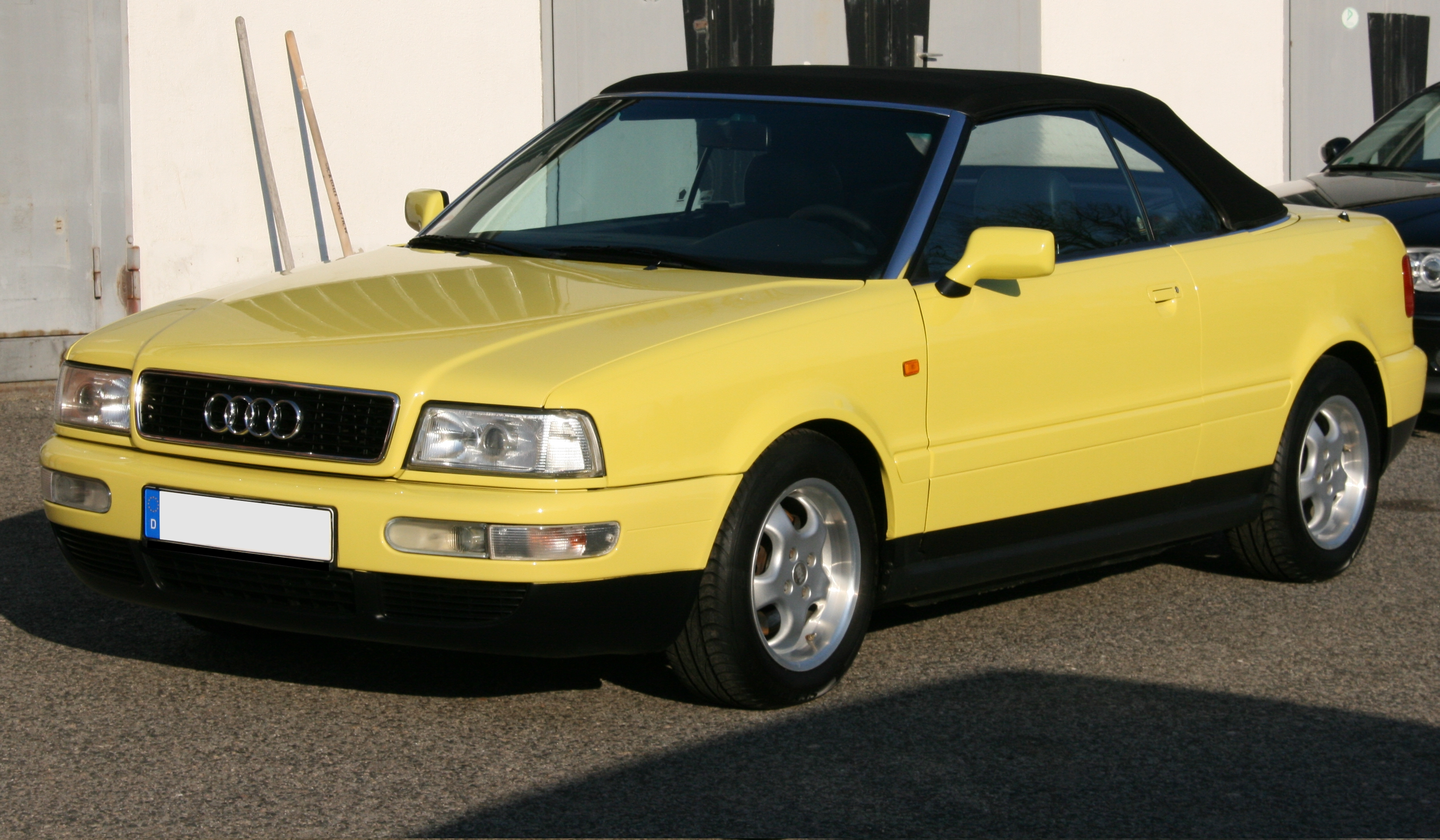 1999 Audi 80 Cabriolett 1.8 Brillantgelb